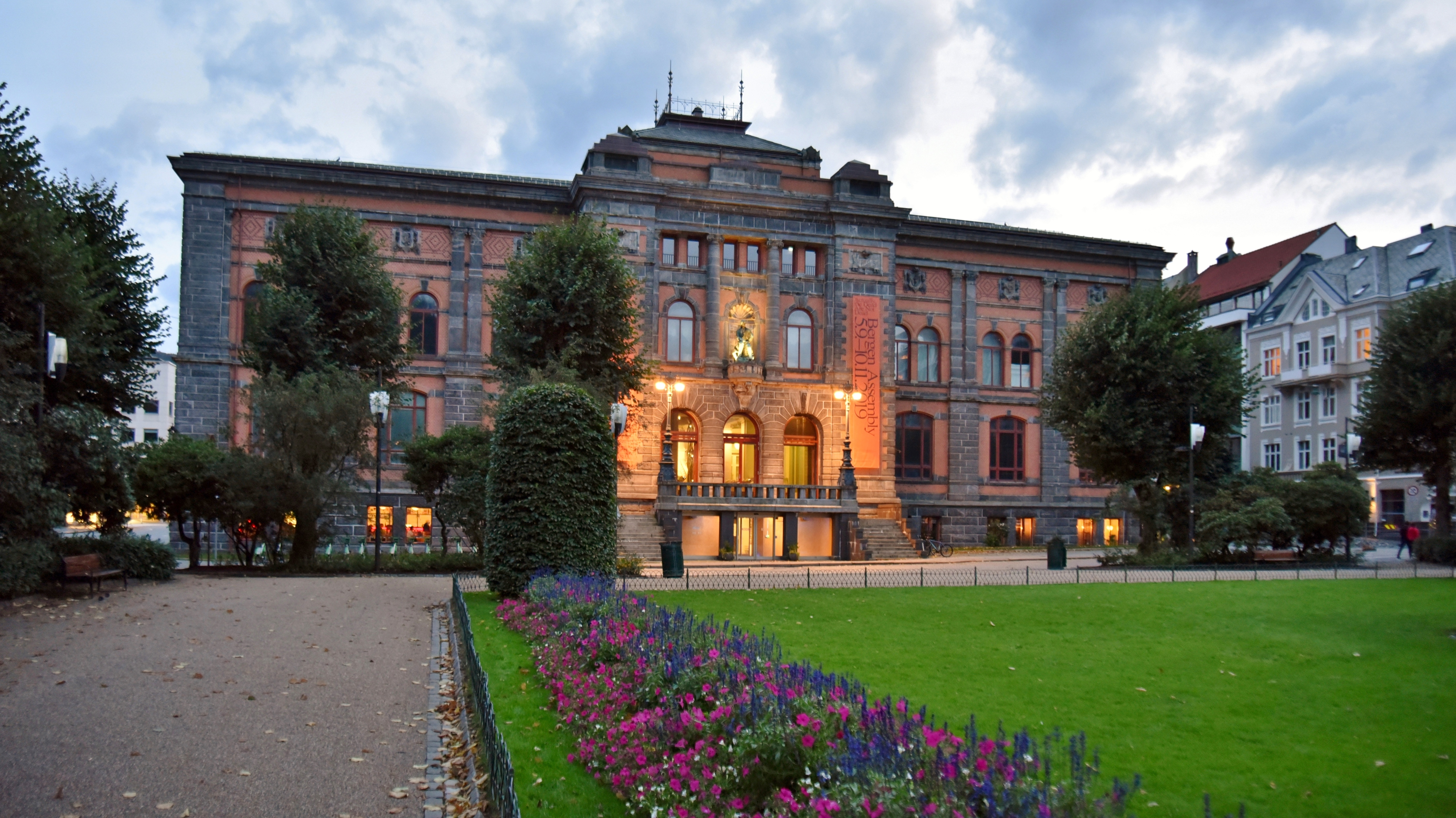 View of the West Norway Museum of Decorative Art, Bergen